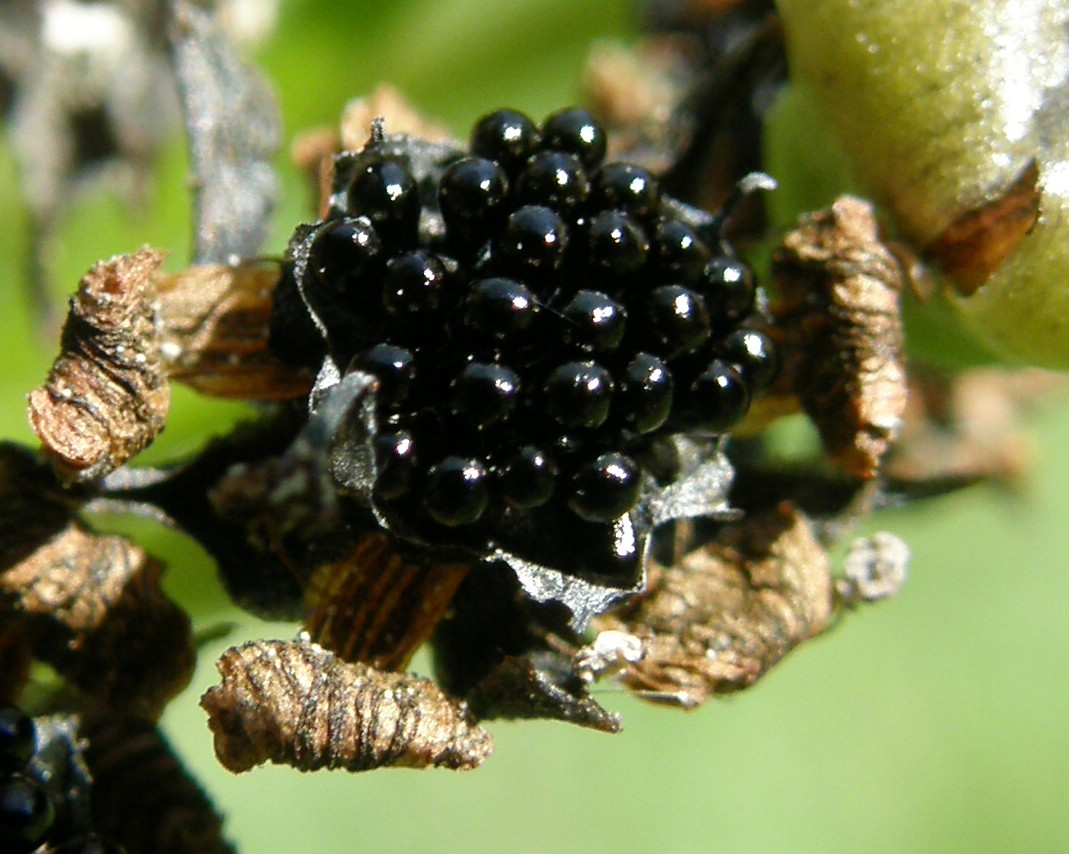 seeds of Dionaea muscipula